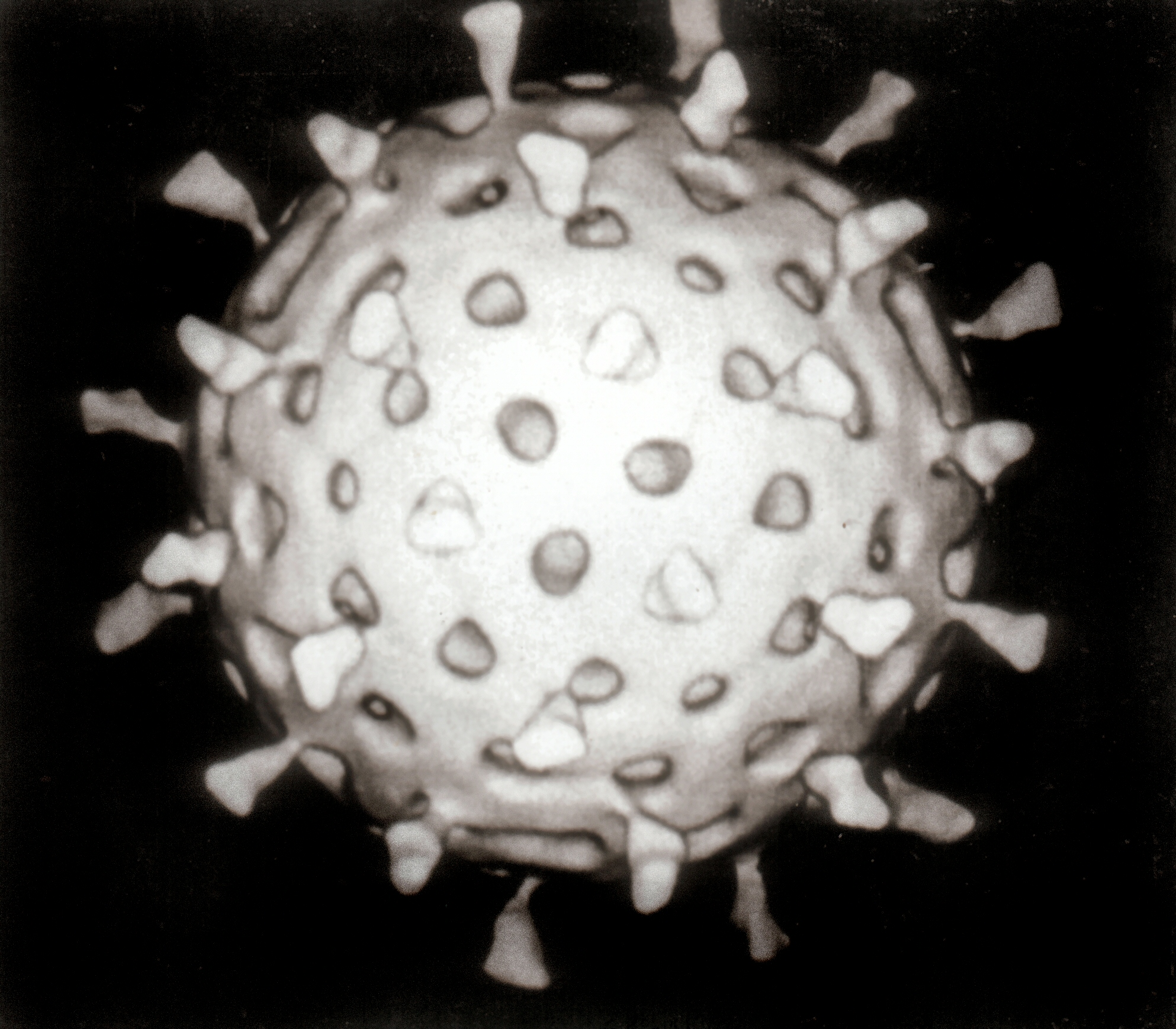 Computer assisted reconstruction of a rotavirus particle